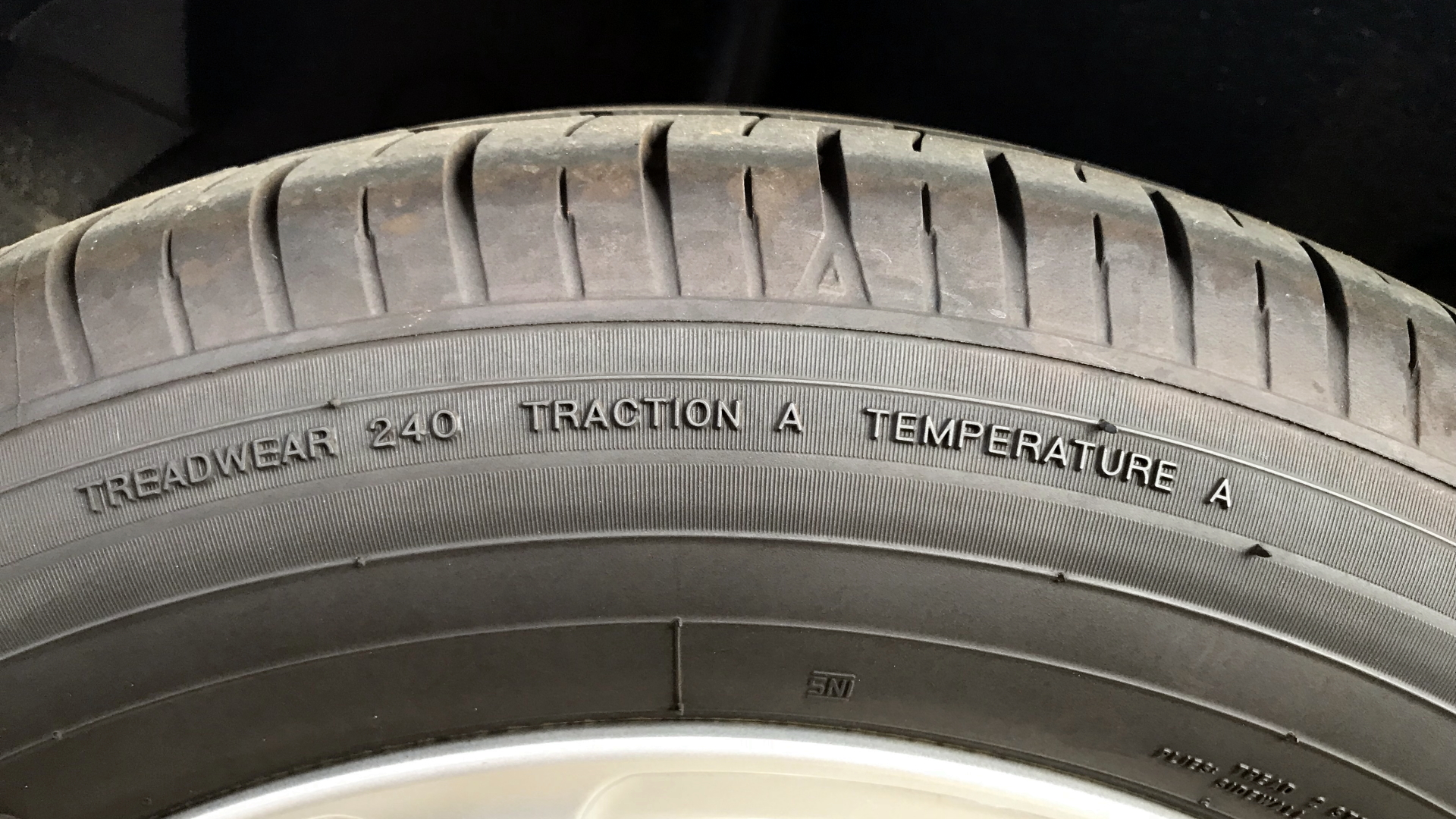 UTQG ratings on Toyo Tires Proxes R39A (185/60R16 86H), equipped on Mazda 2 / Demio Diesel (LDA-DJ5FS) with Bridgestone Toprun aluminum alloy wheel.